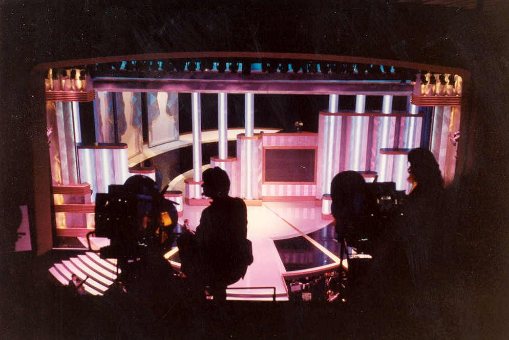 The view from the balcony at the 62nd Annual Academy Awards